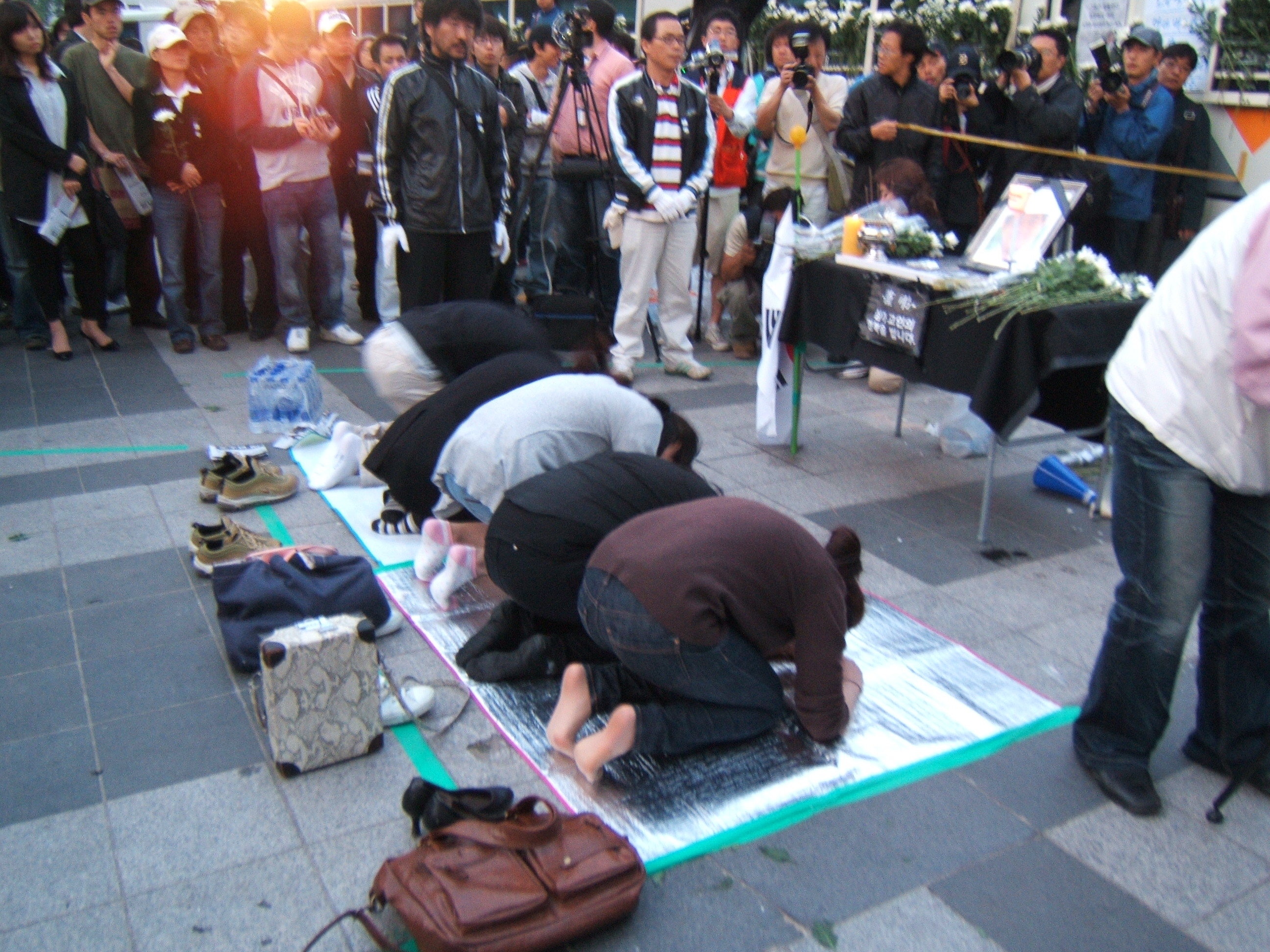 A service for the former President of Korea, Roh Moo-hyun in front of Deoksugung in May 23, 2009